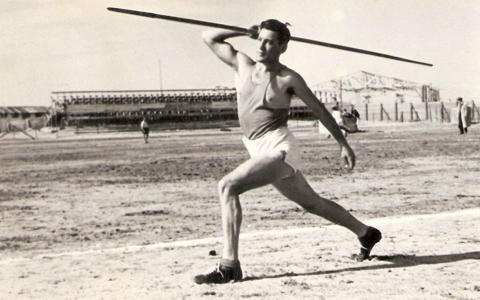 Abraham Green (1913–1999), an Israeli athlete (and, later, coach), throwing the javelin in the Maccabian Stadium in Tel Aviv, Israel.